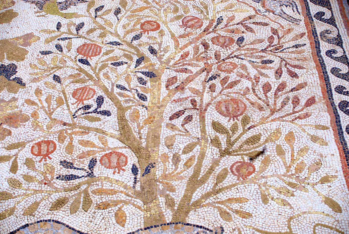 Floor mosaic of a the Tree of Life (as a pomegranite) from the Big Basilica at Heraclea Lyncestis. Bitola, Macedonia